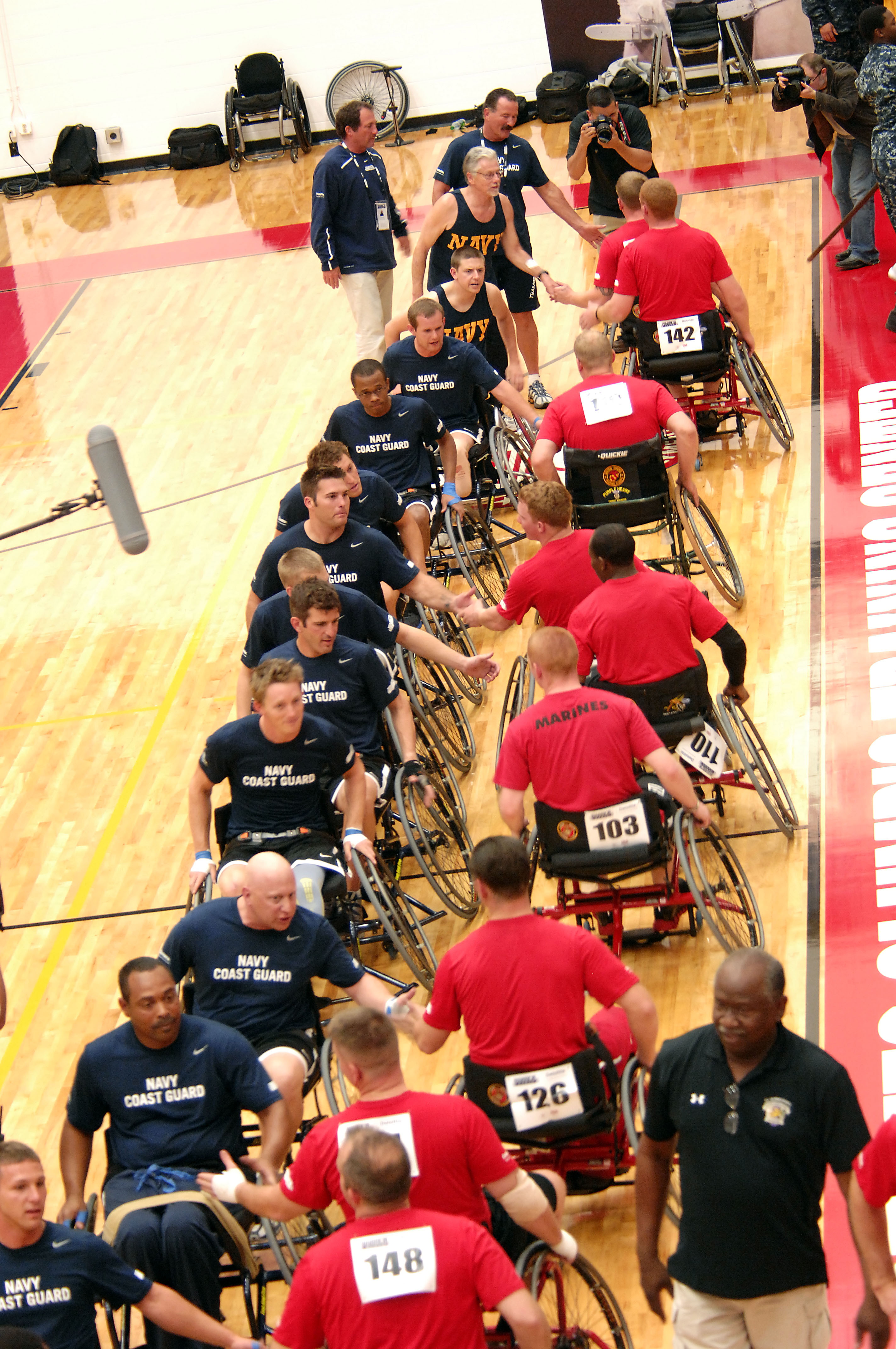 COLORADO SPRINGS, Colo. (May 18, 2011) Members of Team Navy/Coast Guard display sportsmanship by shaking hands with the Marine Corps after a preliminary game of wheelchair basketball at the second annual Warrior Games at the Olympic Training Center. Warrior Games is a Paralympic-style sport event among 200 seriously wounded, ill, and injured service members from the Army, Navy, Air Force, Marine Corps, and Coast Guard. (U.S. Navy photo by Mass Communication Specialist 1st Class Andre N. McIntyre/Released) 110518-N-CD297-078